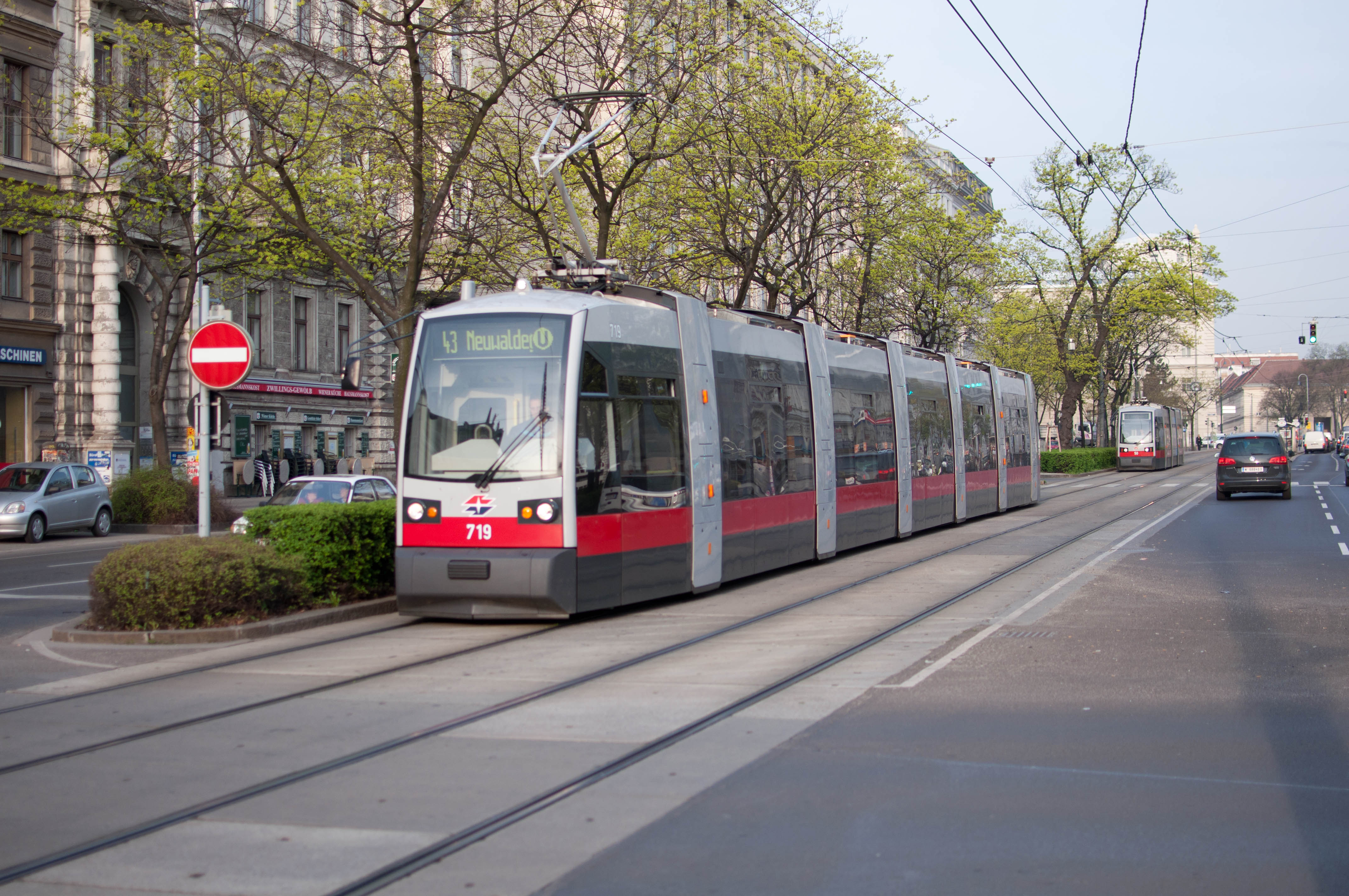 Trolley number 719 on the number 43 line in Vienna, Austria.